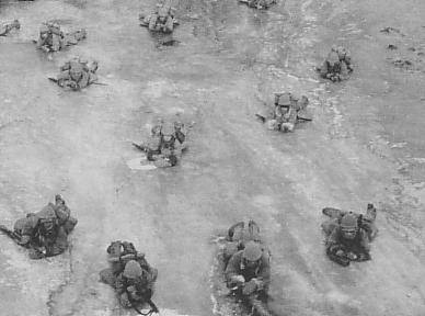 Kwantung Army Special Maneuvers